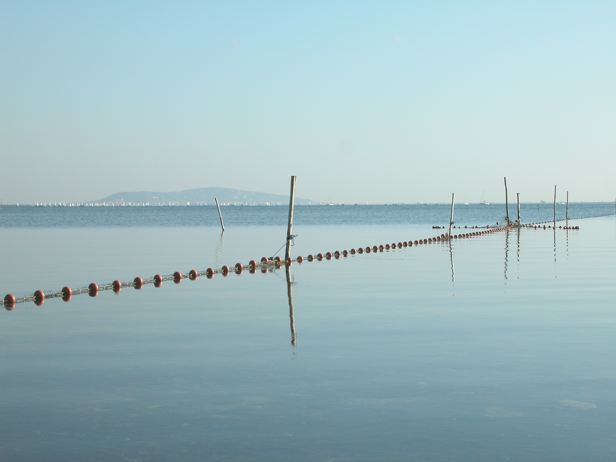 Sète and the Thau pound.